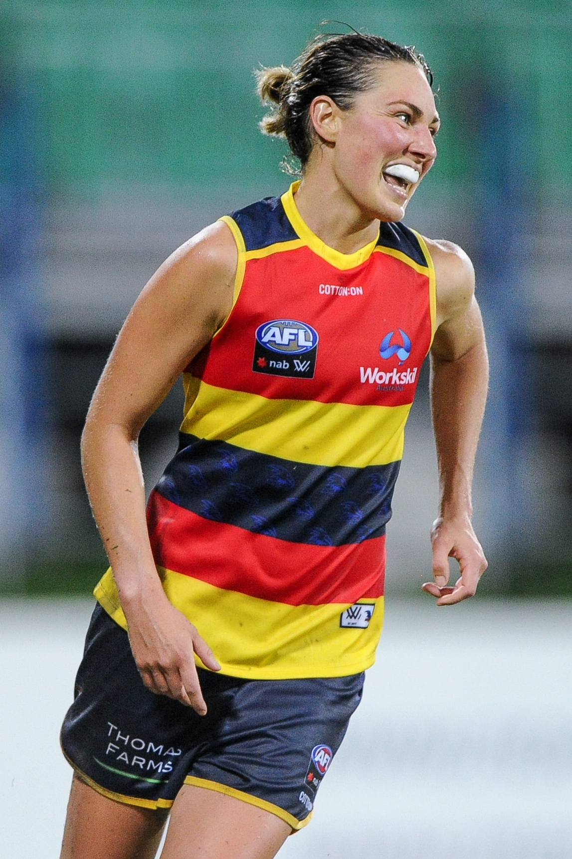 Rheanna Lugg in the AFL Women's preseason match between the Adelaide Football Club and Fremantle Football Club on 20 January 2018 at TIO Stadium